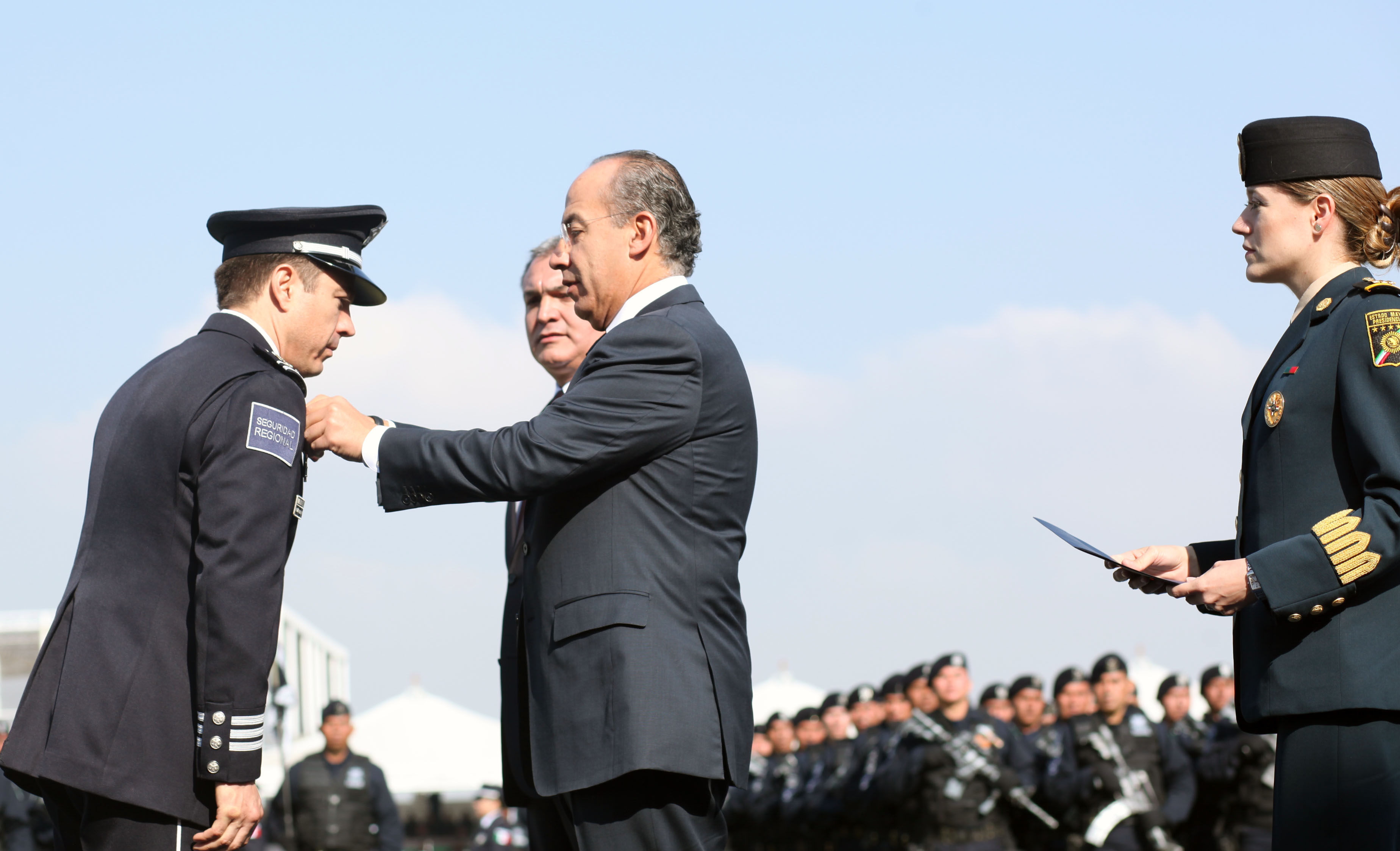 President Felipe Calderon gives Luis Cardenas Palomino the Police Merit Medal, in the first commemoration of the Federal Police Day in Mexico